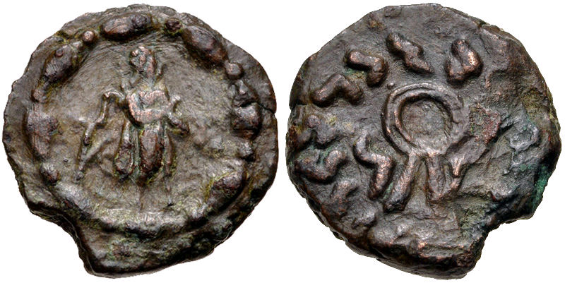 Strato II Soter (Maharaja)sa tratarasa (Stra)tasa